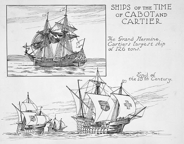 Example of Cartier's and Cabot's type of ship